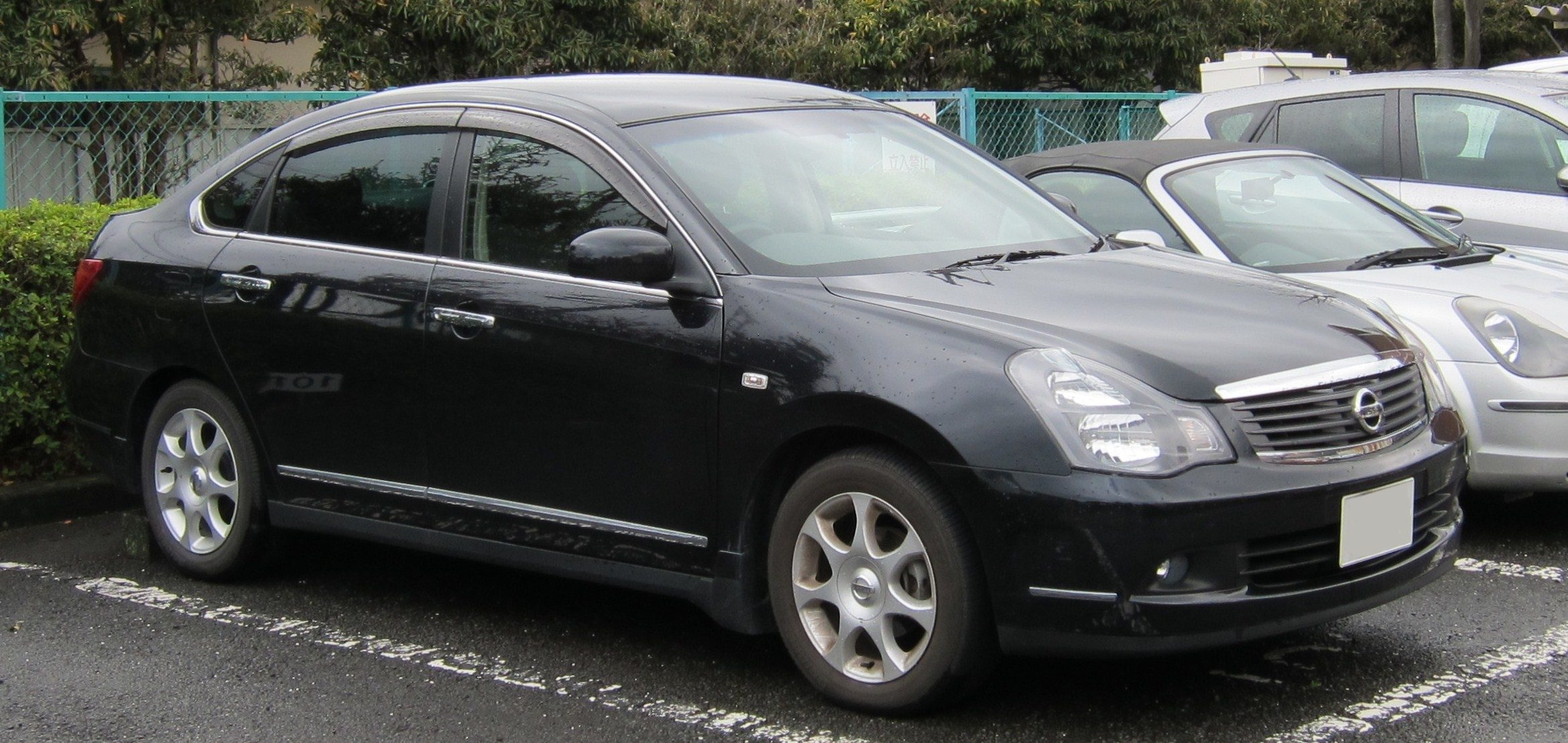 NISSAN BLUEBIRD SYLPHY 20S Cool Modern